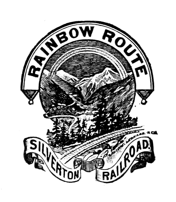 Logo of the narrow gauge Silverton Railroad, Colorado. Founded by Otto Mears in 1887, it went bankrupt and was reorganised as Silverton Railway in 1904. This logo is therefore pre-1904.